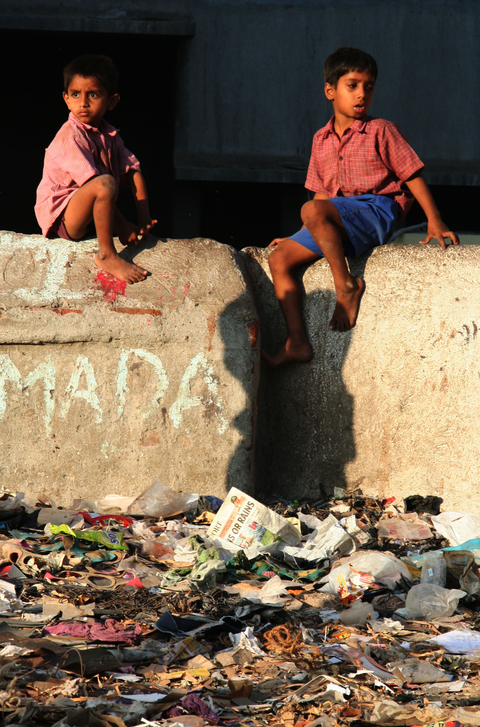 Two boys on a concrete wall, overlooking rubbish in Dharavi. Original description: Inside Dharavi, Asia's largest slum of over one million dwellers. From producing clay pots to recycling plastic, this slum is also home to hundreds of businesses and defying the many myths of poverty.The sum of these small enterprises have an annual turnover of $665 million! Photography by the NGO medapt